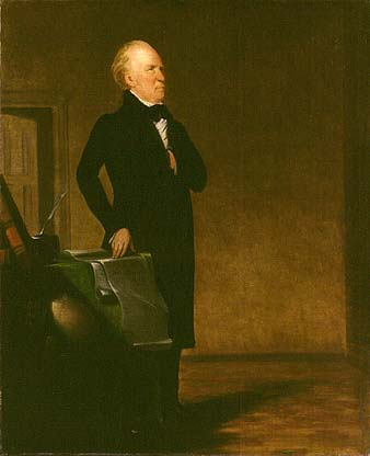 General William Clark, 1830 oil National Portrait Gallery, Smithsonian Institution, NPG.71.36 Catlin painted William Clark, the famous explorer of the Lewis and Clark expedition, in St. Louis during his first trip west in 1830. As superintendent of Indian affairs in the West, Clark issued passports to travelers in Indian country. The indefatigable explorer also operated an Indian museum, stocked with portraits and artifacts, in a wing of his home. Earlier, Catlin had seen objects collected by Lewis and Clark at Charles Willson Peale's museum in Philadelphia.